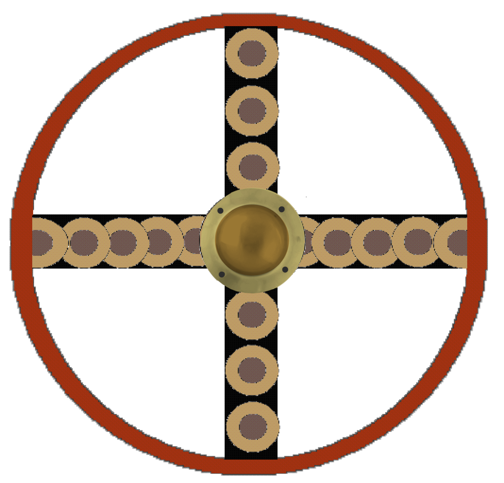 Shield pattern o.t. Mattiaci seniores, an auxilia palatina unit under the Magister Peditum, it also listed under the Magister Peditum's Italian command.